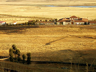 View of Campo Azálvaro from the Cruz de Hierro pass in Sierra de Ojos Albos.